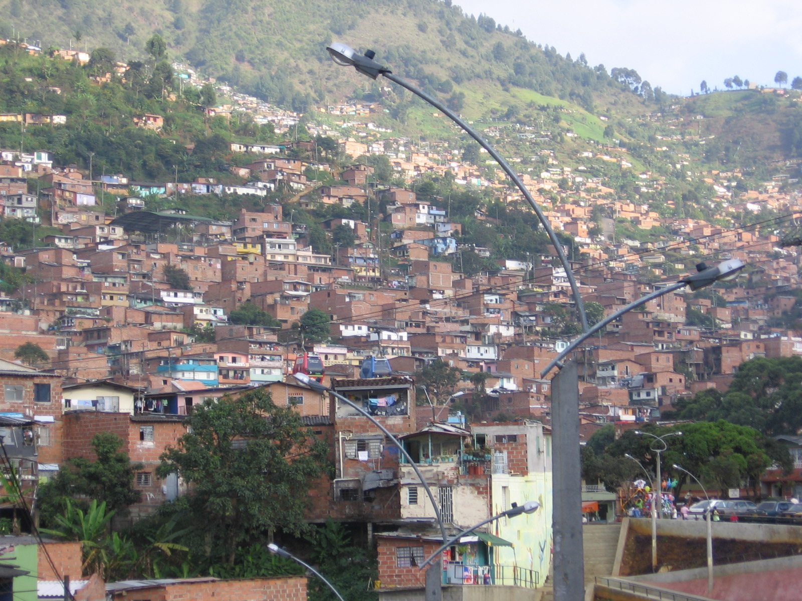 A view of the Barrio Santo Domingo, North-East of Medellín. One of the poorest sectors of the city.